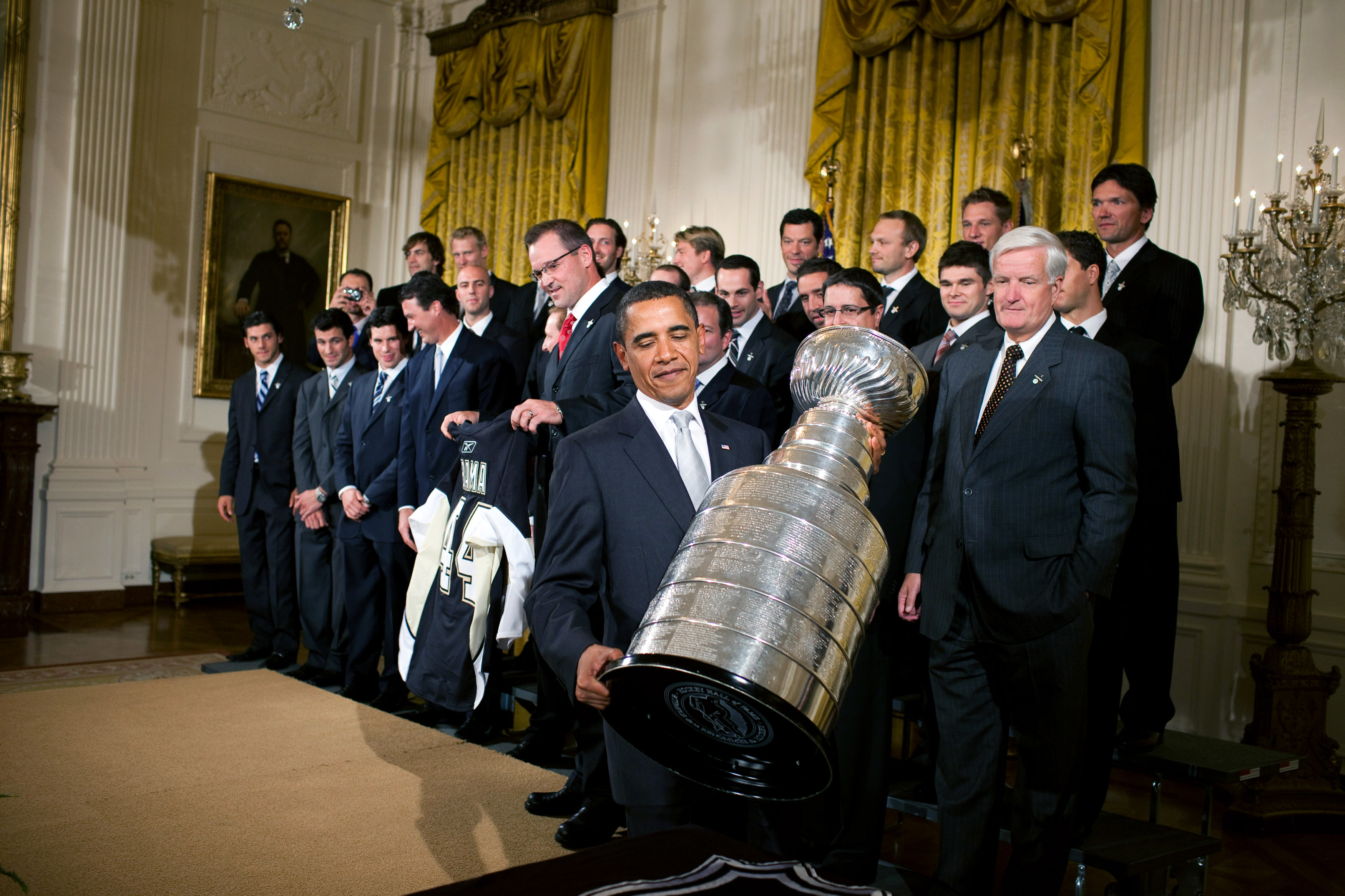 President Barack Obama lifts the Stanley Cup trophy during the East Room ceremony for the 2009 Stanley Cup NHL champion Pittsburgh Penquins, Sept. 10, 2009. (Official White House Photo by Pete Souza)